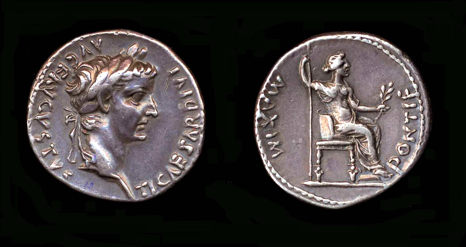 Tiberius, R6195, BMC 49: Tiberius. AD 14-37. AR Denarius (18mm, 3.80 g, 1h). “Tribute Penny” type. Lugdunum (Lyon) mint. Group 6, AD 36-37. Obverse: TI[berivs] CAESAR DIVI AVG[vsti] F[ilivs] AVGVSTS (Caesar Augustus Tiberius, son of the Divine Augustus), laureate head right, parallel ribbons Reverse: PONTIF[ex] MAXIM[us], Livia (as Pax) seated right, feet on footstool, holding scepter and branch; ornate legs, one line below. Catalogue: RIC I 30; Lyon 154; RSC 16a. When Jesus was asked whether or not it was lawful to pay tribute to Caesar, he requested that he be shown a coin. After questioning his questioners, he replied "Render unto Caesar the things that are Caesar's, and unto God the things that are God's". It has been argued that a coin similar to this one was the coin handed to Jesus. Note: Coins of this design but with minor differences were stuck both before and after Jesus' ministry. This particular specimen was struck a few years after his ministry.